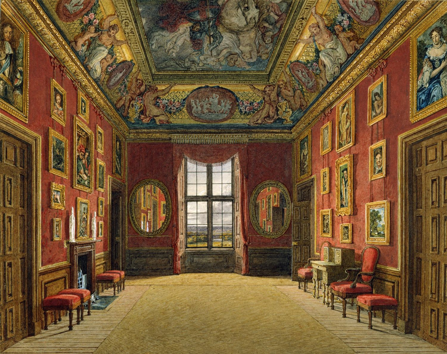 A view of the King's Closet at Windsor Castle The aquatint engraving of this picture was published as plate 12 of W.H. Pyne (1819), The History of the Royal Residences